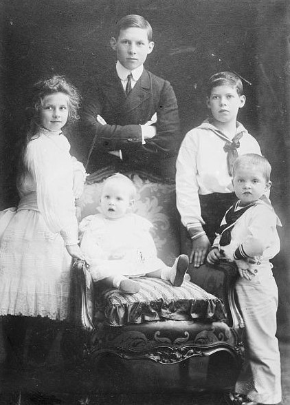 Children of King Constantine